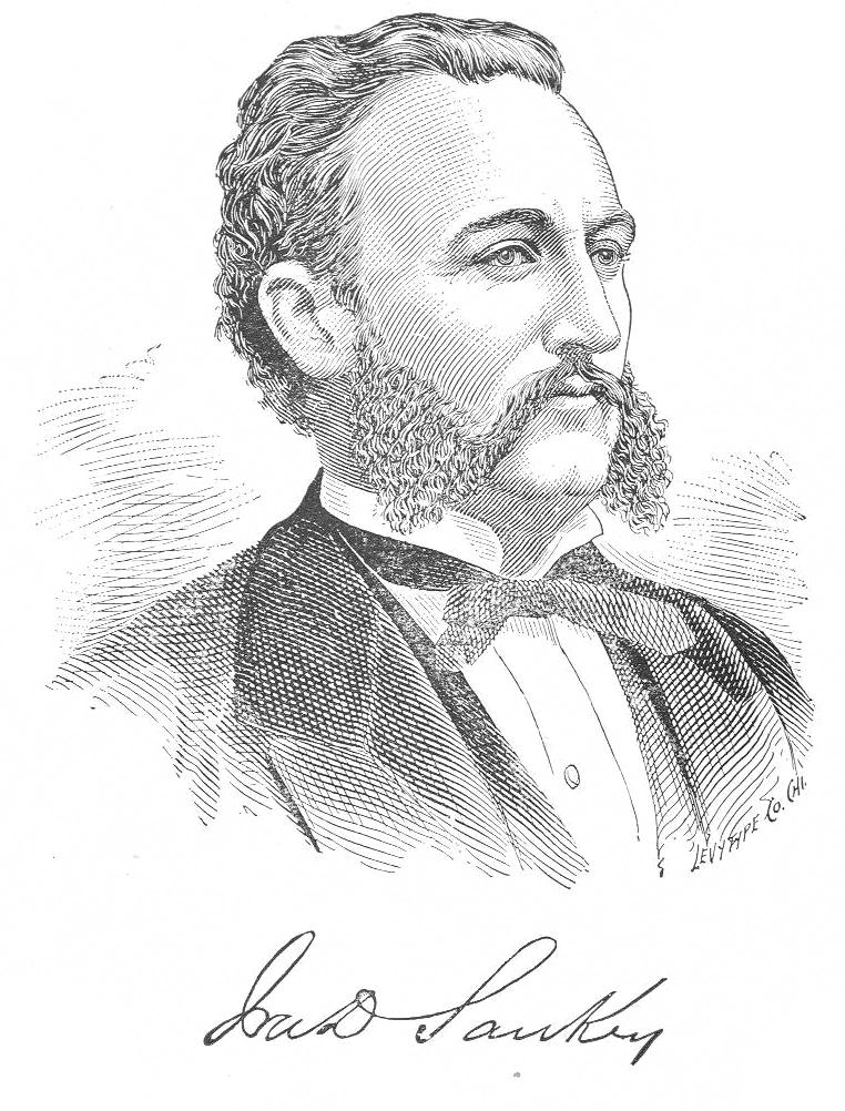 Ira Sankey, American gospel singer and composer